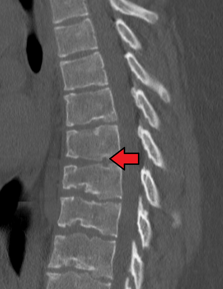 Schorl's nodes in Scheuermann's disease